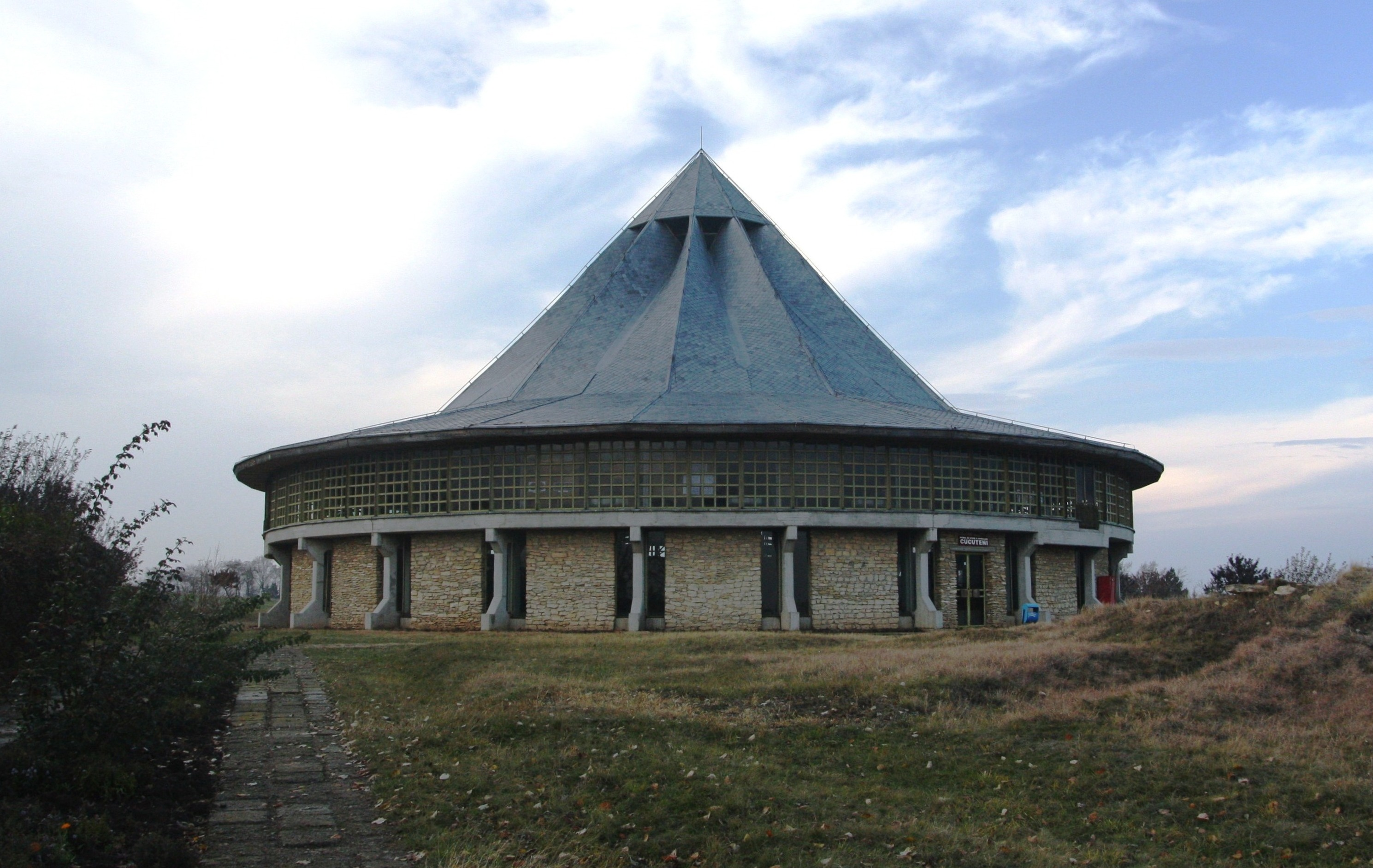 Cucuteni Village Museum